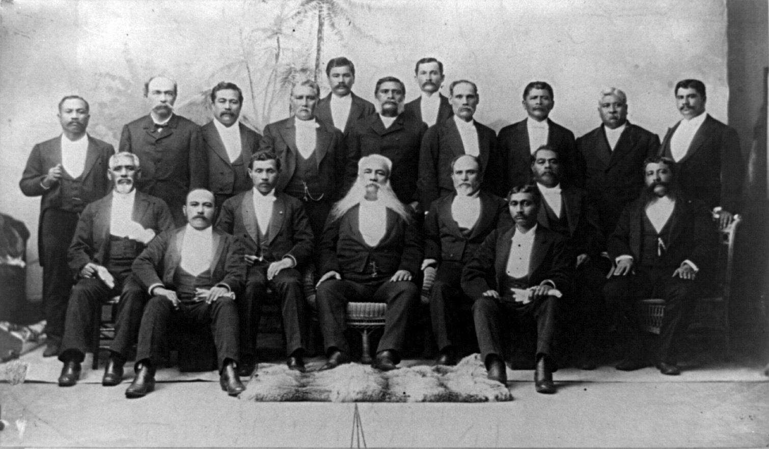 Hui Aloha ʻĀina o Na Kane or the Hawaiian Patriotic League for Men, which petitioned against annexation. Captioned: Representative Committee of Delegates of the Hawaiian People to present a memorial to Hon. James H. Blount, praying for the restoration of the monarchy under Queen Liliuokalani. Included in the crowd are Sam M. Kaaukai, J. W. Bipikane, H. S. Swinton, J. K. Kaulia, L. W. P. Kanealii, Joseph Nawahi, John Sam Kikukahiko, S. K. Aki, J. A. Cummins, D. W. Pua, John K. Prendergast, A. K. Palekaluhi, John E. Bush, John Mahiai Kaneakua, F. S. Keiki, J. K. Kaunamano, J. Kekipi, John Lota Kaulukou, and J. K. Merseburg.